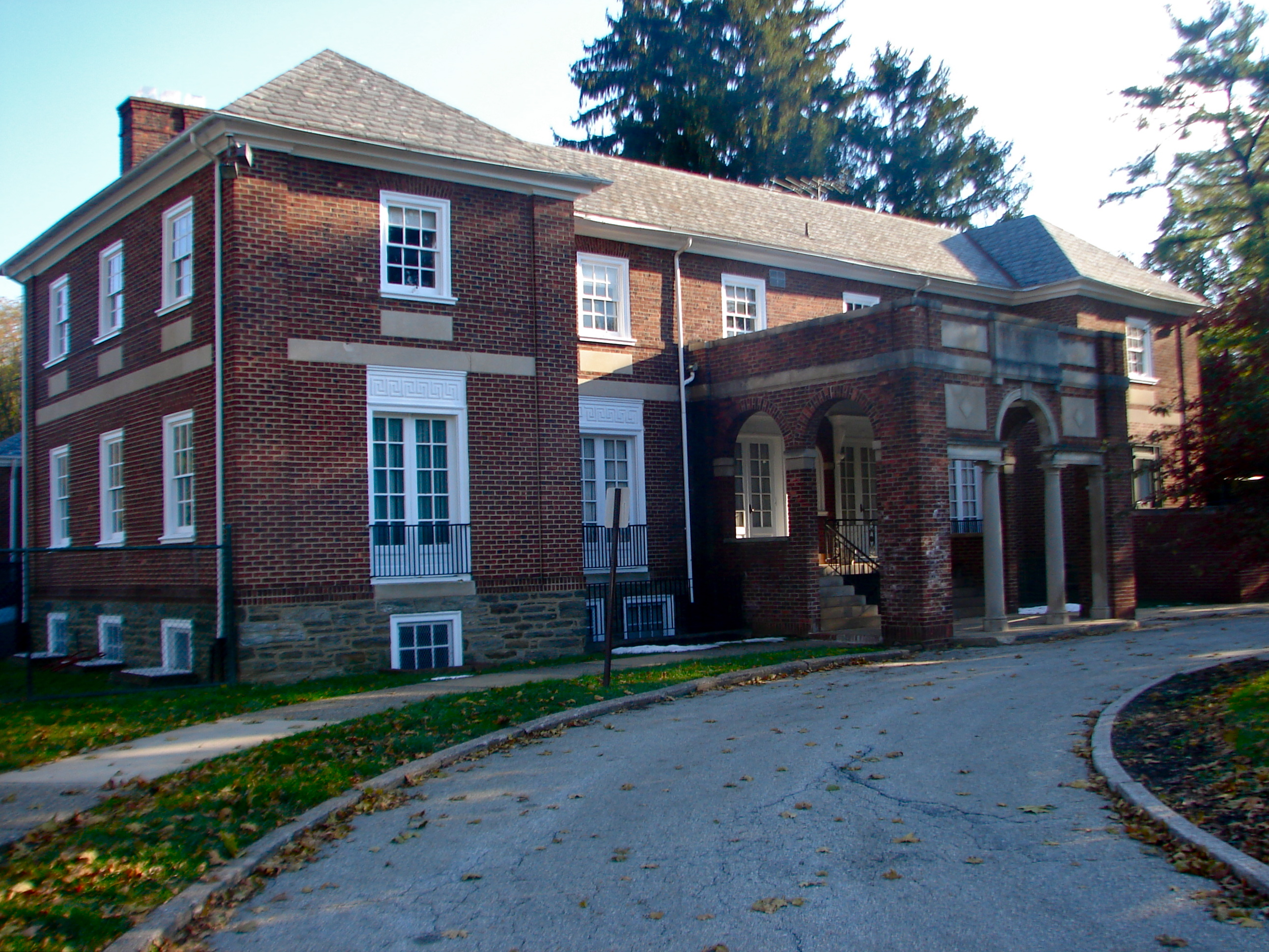 Glenside Memorial Hall on the NRHP since May 12, 2004. At 185 Keswick Avenue, Cheltenham, Montgomery County, Pennsylvania